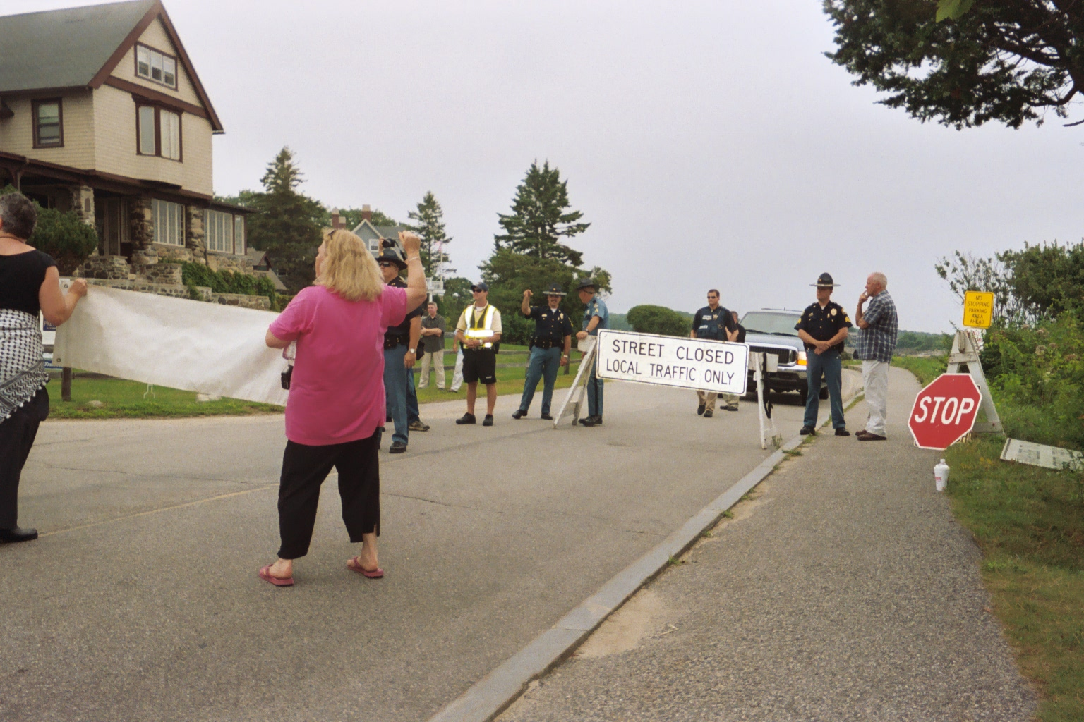 anti-war protesters and police officers at checkpoint on Ocean Avenue, Kennebunkport, Maine, a few hundred meters from ex-President George H.W. Bush's summer home.